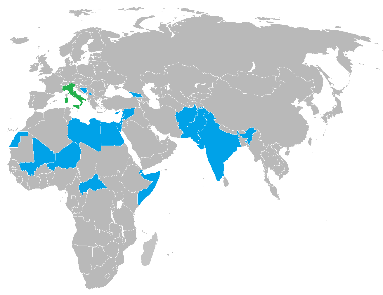 Current operations of Italian Armed Forces, under the UN/EU/NATO or bilaterals